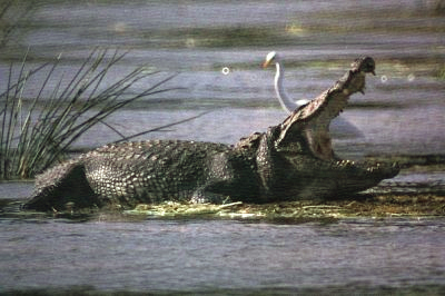 A picture of the mugger crocodile (aka, the Persian, Indus, and Iranian crocodile)